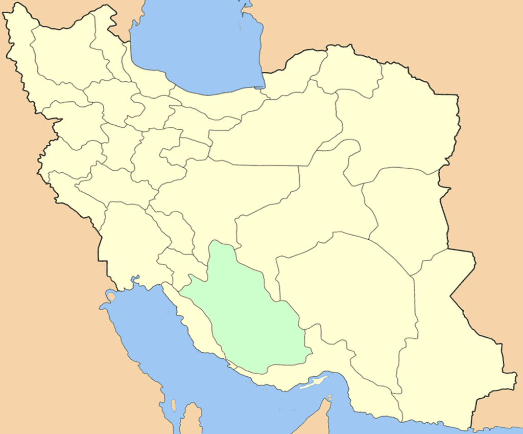 Blank locator map (orthographic projection) of Iran (province of Fars)